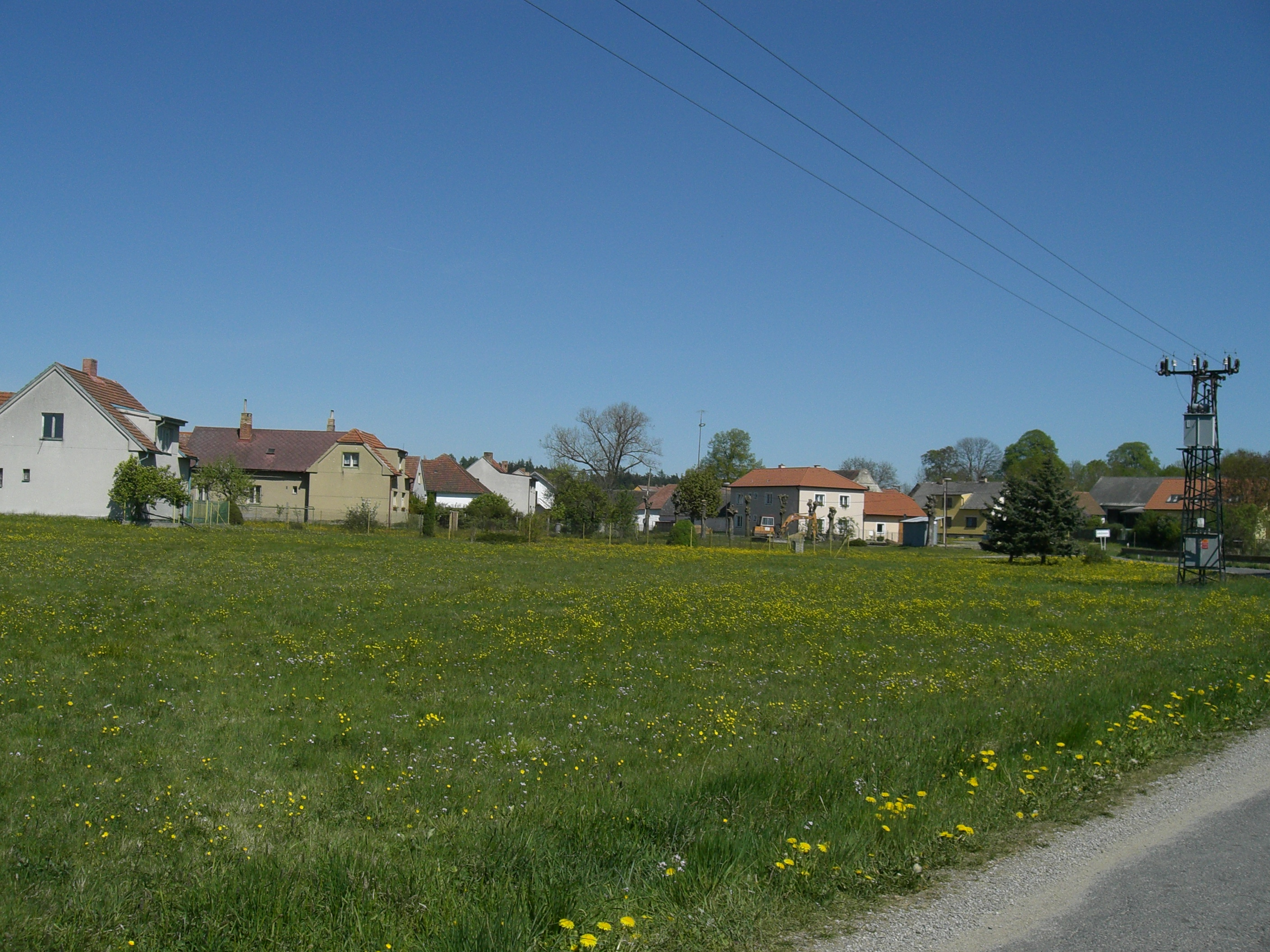 Křižanov village in Písek district, Czech Republic.